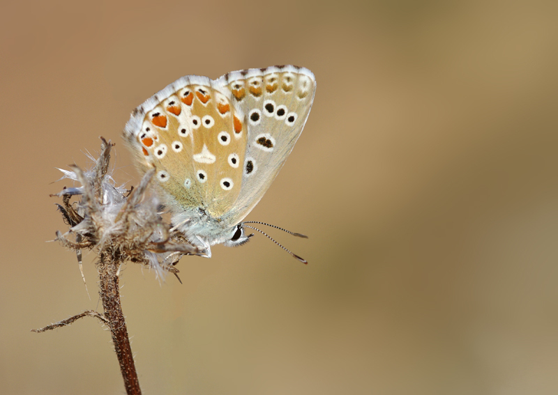 Wing underside view of a false chalk-hill blue butterfly (Polyommatus corydonius), Zara, Sivas, TurkeyTürkçe: Çokgözlü yalancıçillimavi kelebeğinin (Polyommatus corydonius) kanat altı görünümü. Zara, Sivas, Türkiye